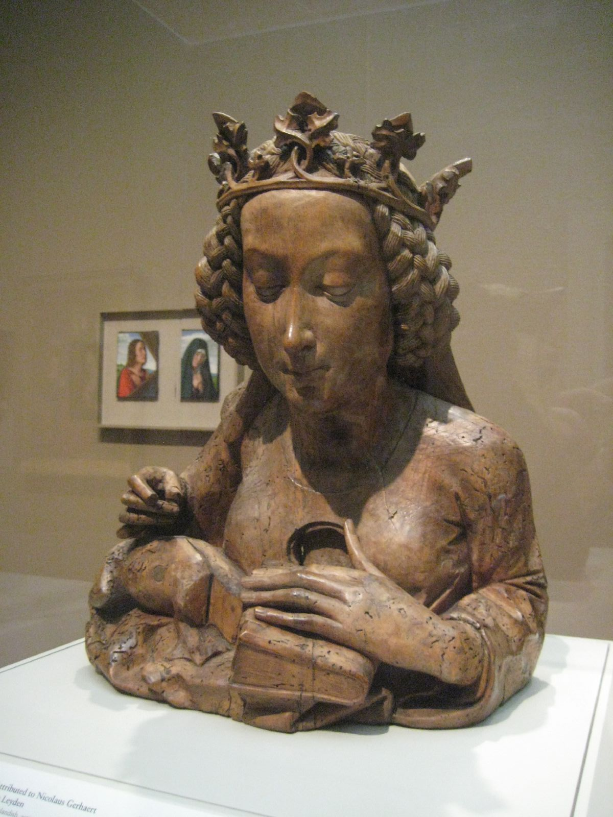 Reliquary Bust of Saint Margaret of Antioch. Attributed to Nicolaus Gerhaert van Leyden (act. in Germany, 1462 - 73), netherlandish. 1465-70. Walnut with traces of polychromy. Art Institute of Chicago. Item number: 1943.1001